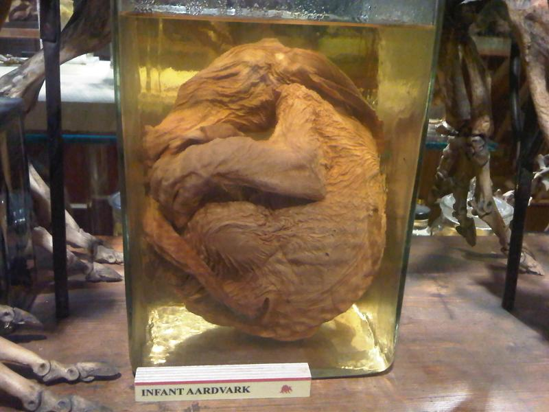 Infant aardvark (Orycteropus afer) in Grant Museum of Zoology, London, England.